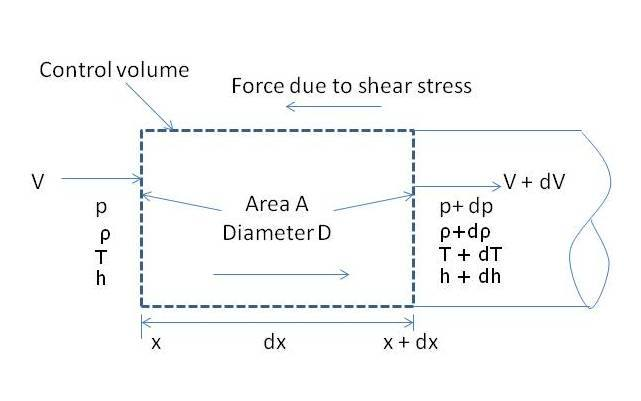 infinitesimally small flow